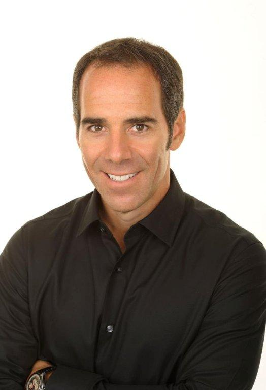 American music industry executive Monte Lipman